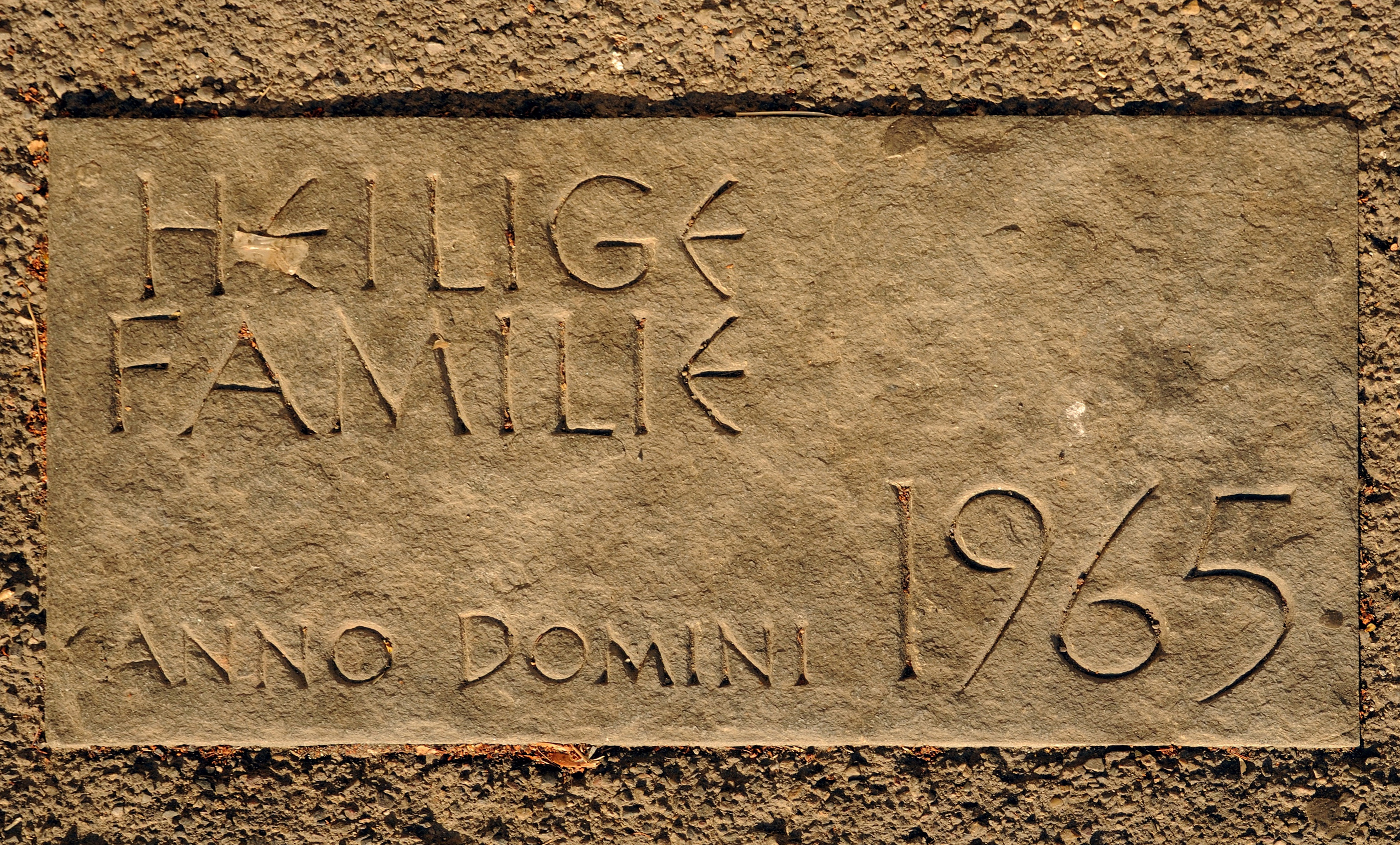 Lörrach: Holy Family Church